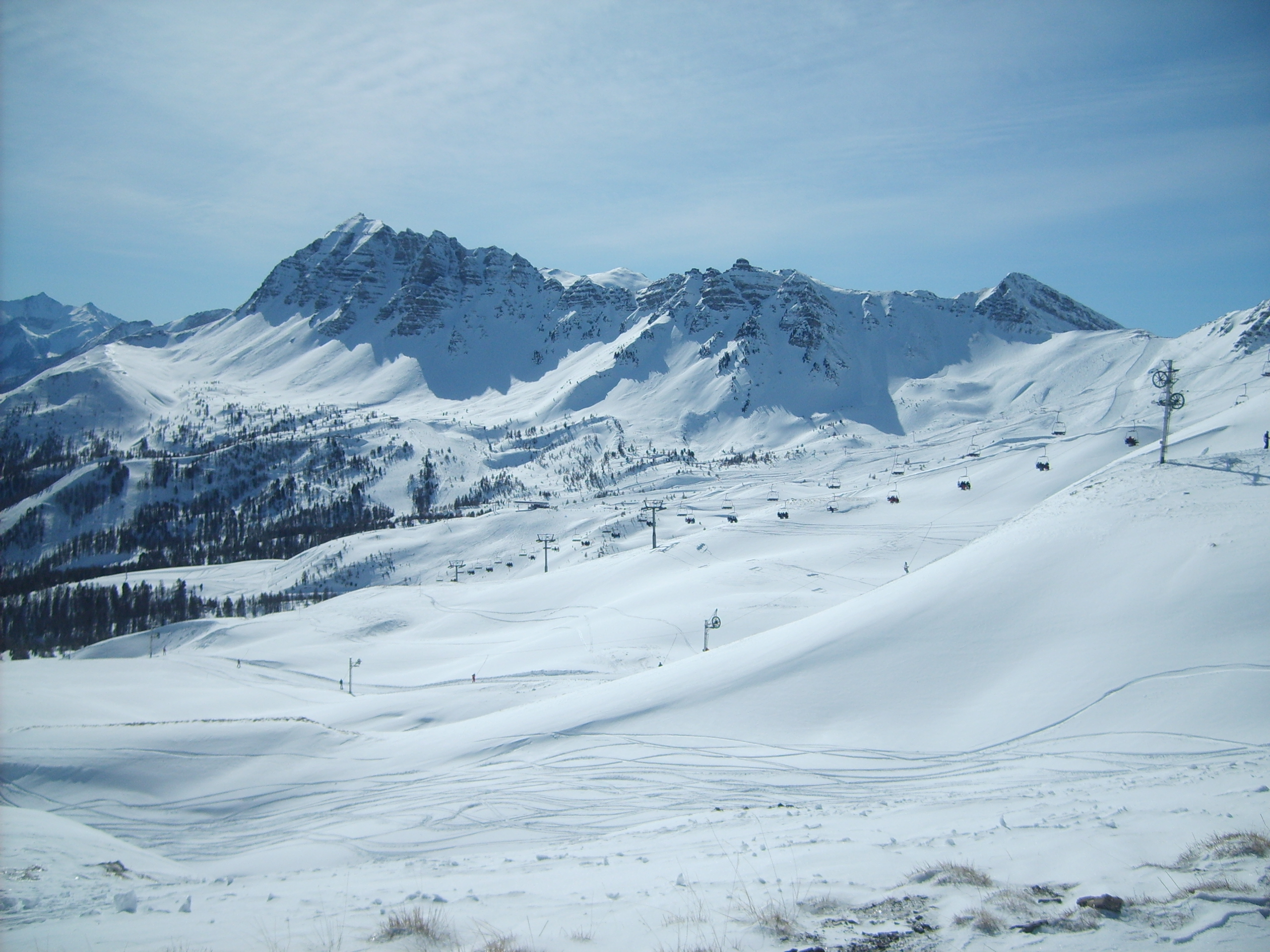 Vars ski ressort